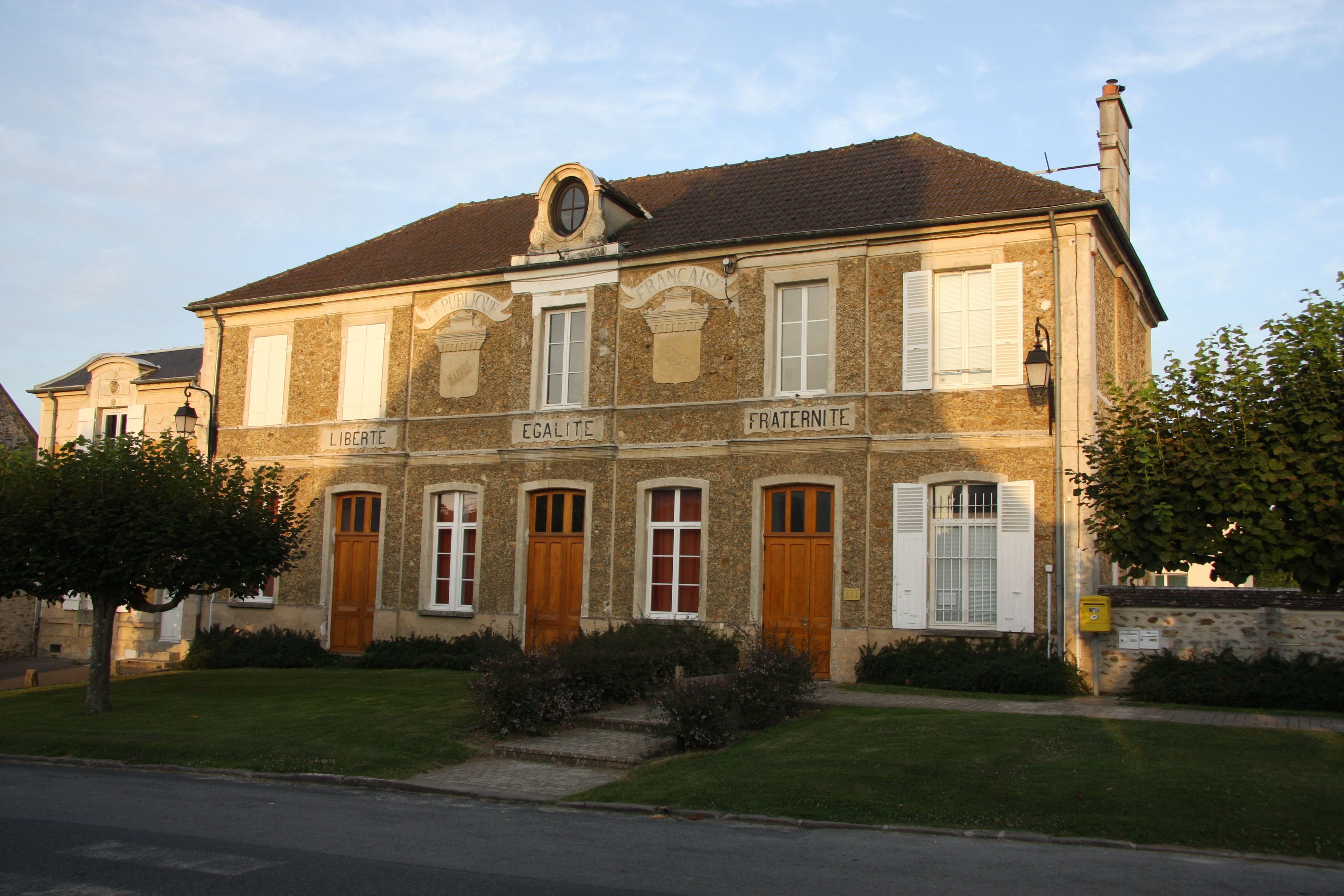 Towhn hall of Beautheil